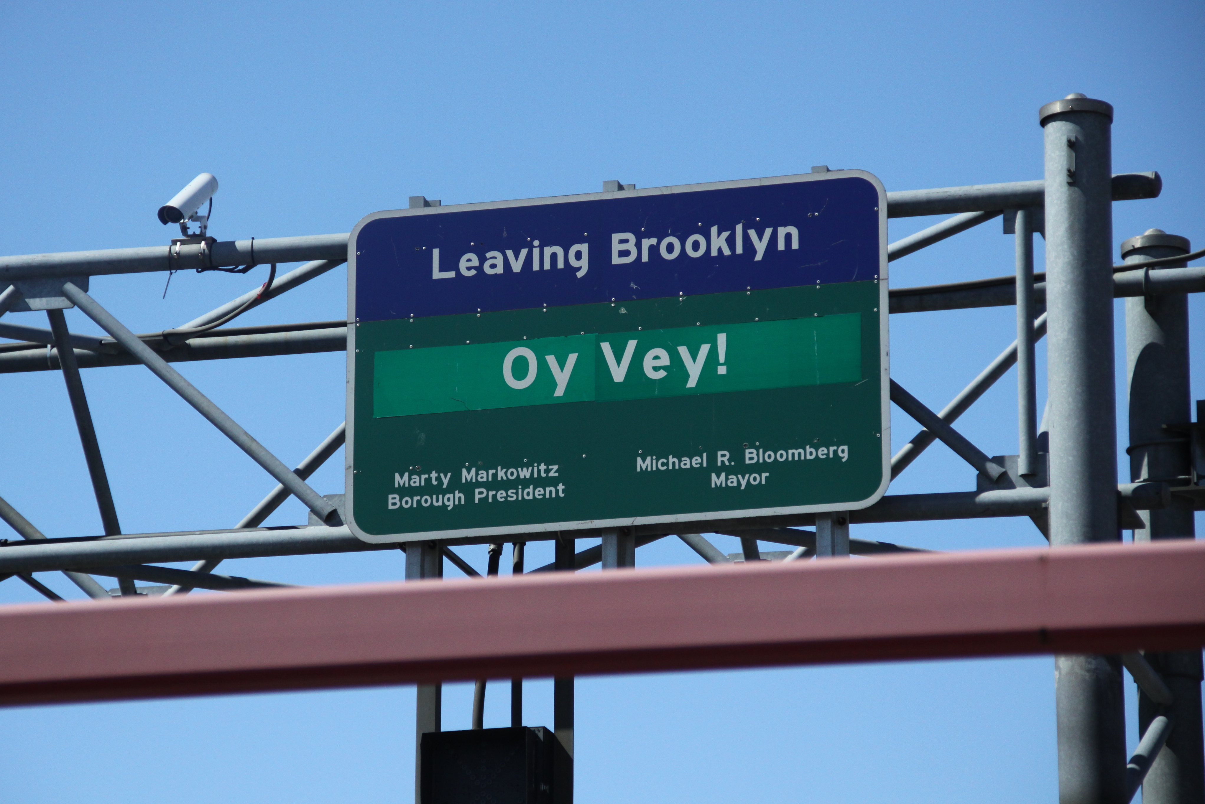 i am still unsure what to think of this sign.